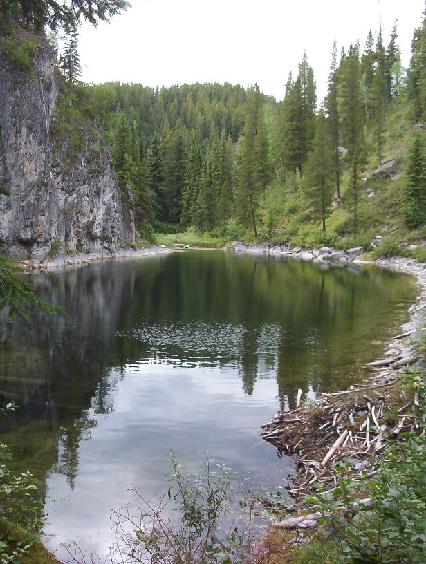 Stone Corral in Monkman Provincial Park, British Columbia. The Stone Corral is a doline.